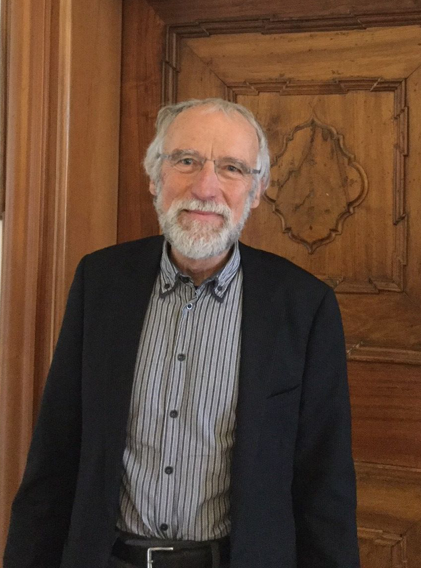 Kaspar H. Spinner